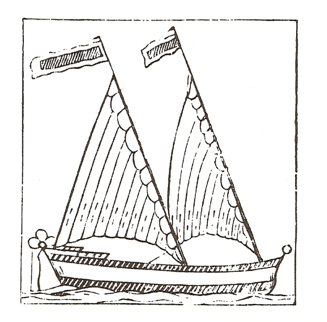 A 17th Century woodcut of a Bermudian sailing vessel, displaying the triangular sails of the Bermuda rig. Source Reproduced in Sailing in Bermuda: Sail Racing in the Nineteenth Century, by J.C. Arnell.